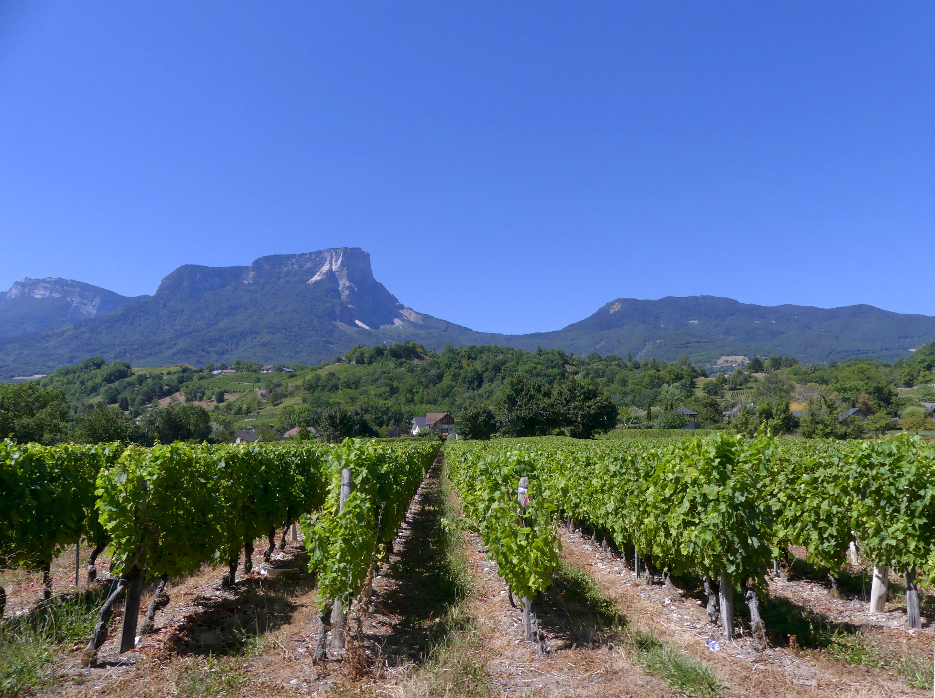 Sight of Les Marches vineyards, with visible Chartreuse mountain range at the backgroud, in Savoie, France.